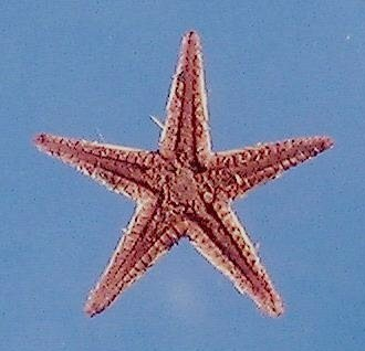 Two-spined star fish ( Astropecten duplicatus ). Gulf of Mexico.